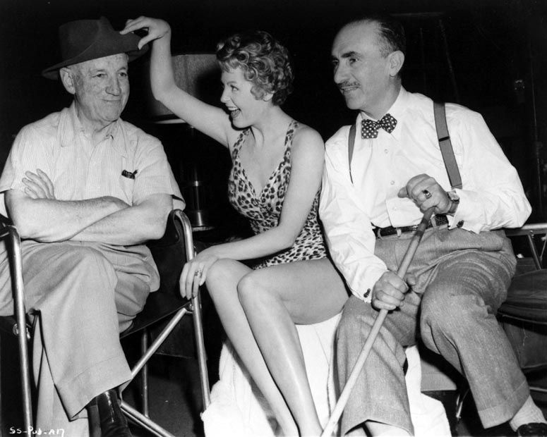 director Allan Dwan, Arlene Dahl, and cinematographer John Alton on the set on Slightly Scarlet (1956) - publicity still